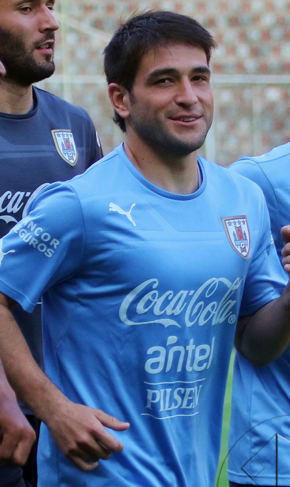 Guayaquil, 09 de nov. del 2015 (Andes).-El primer grupo de jugadores de la selección de Uruguay que llegó a Ecuador realizó una práctica en el estadio Monumental.Foto:César Muñoz/Andes Nicolás Lodeiro